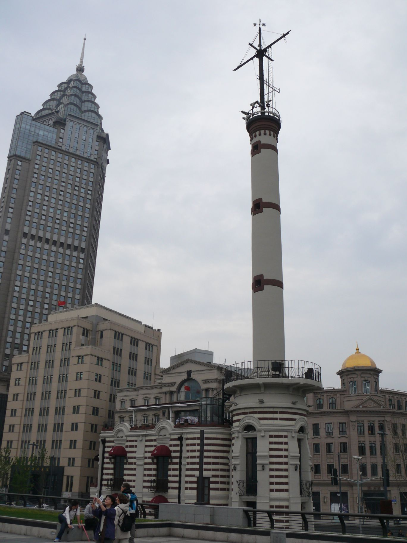 The semaphore of the Bund (Shanghai, China)